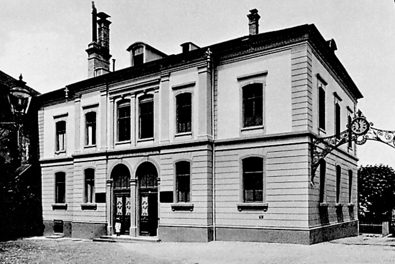 The original offices of Toggenburger Bank in Lichtensteig, Switzerland (c. 1863)